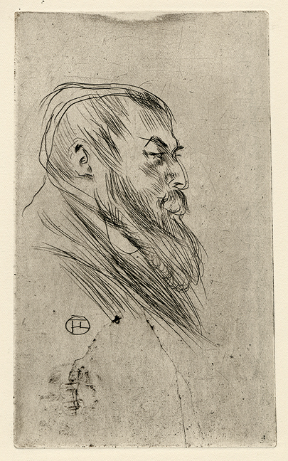 Portrait of French writer and playwright Tristan Bernard (1866-1947) by Henri de Toulouse-Lautrec (1864-1901). Etching, ink on paper.